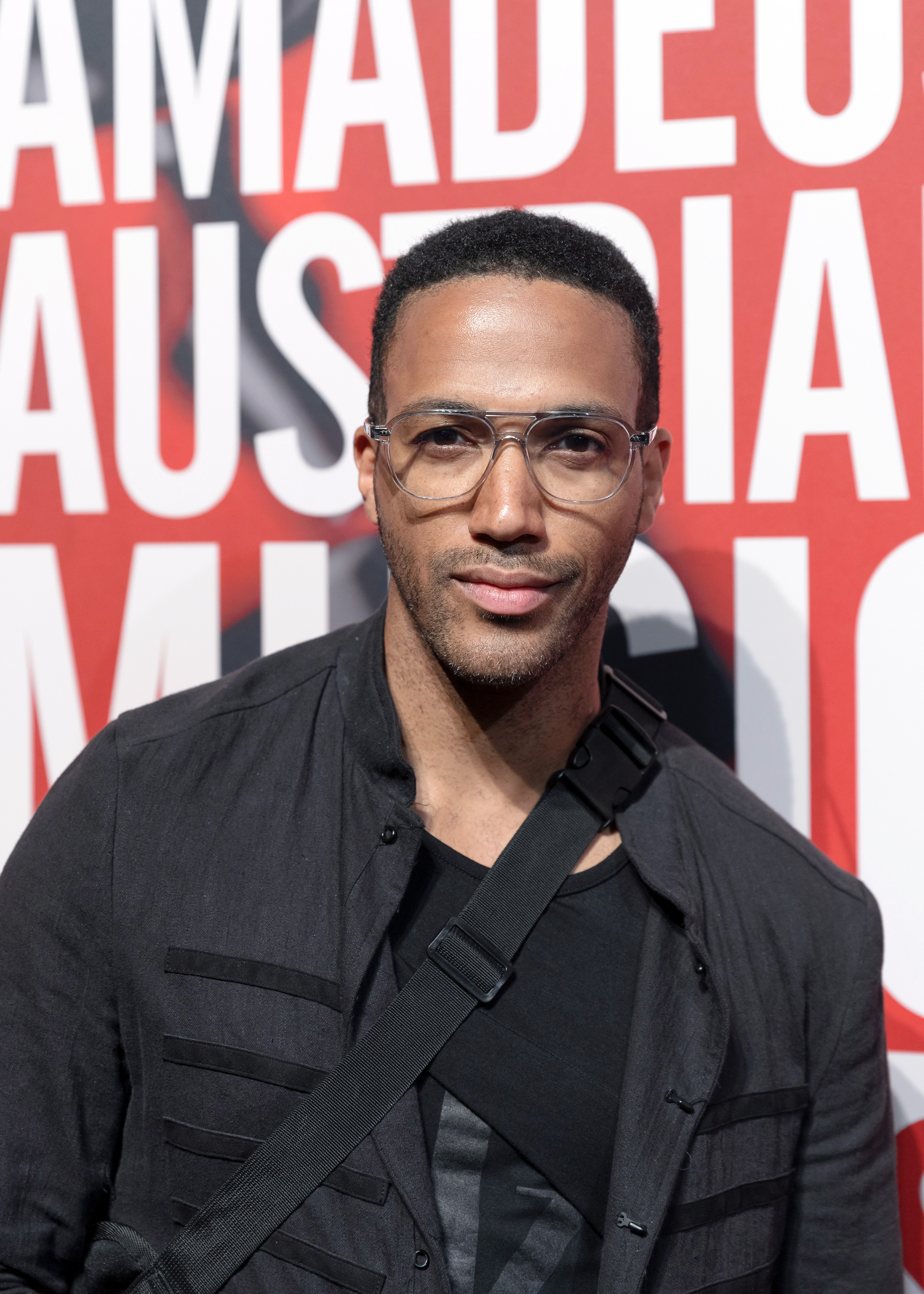 Cesár Sampson at the Amadeus Austrian Music Award 2019 at Volkstheater in Vienna.